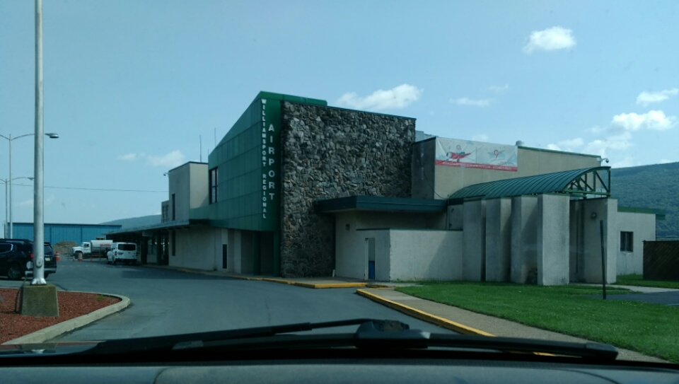 Original terminal building at Williamsport Regional Airport